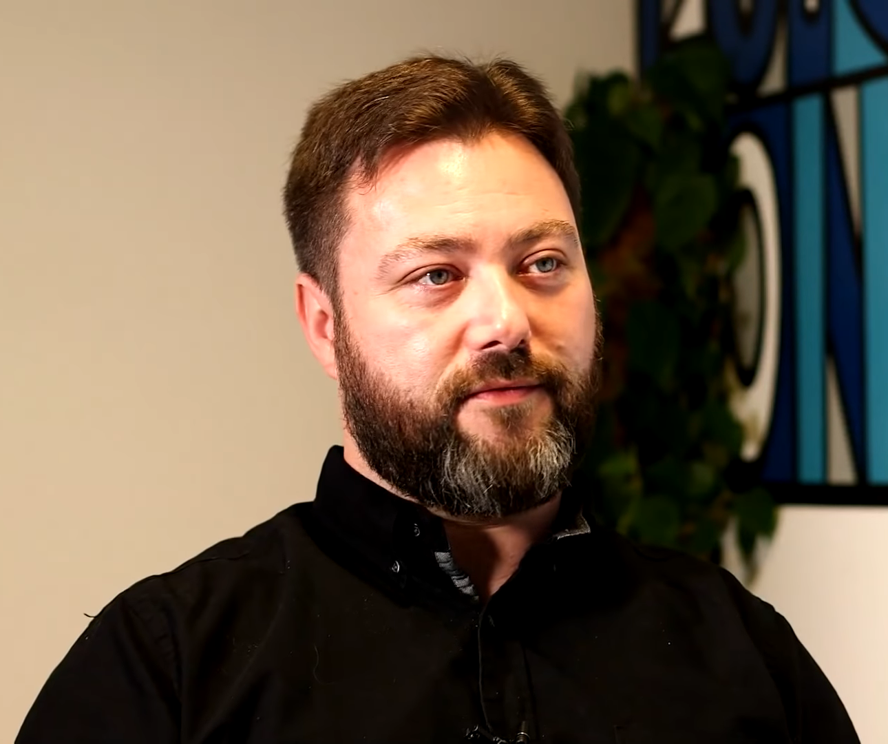 Carl Benjamin being interviewed.